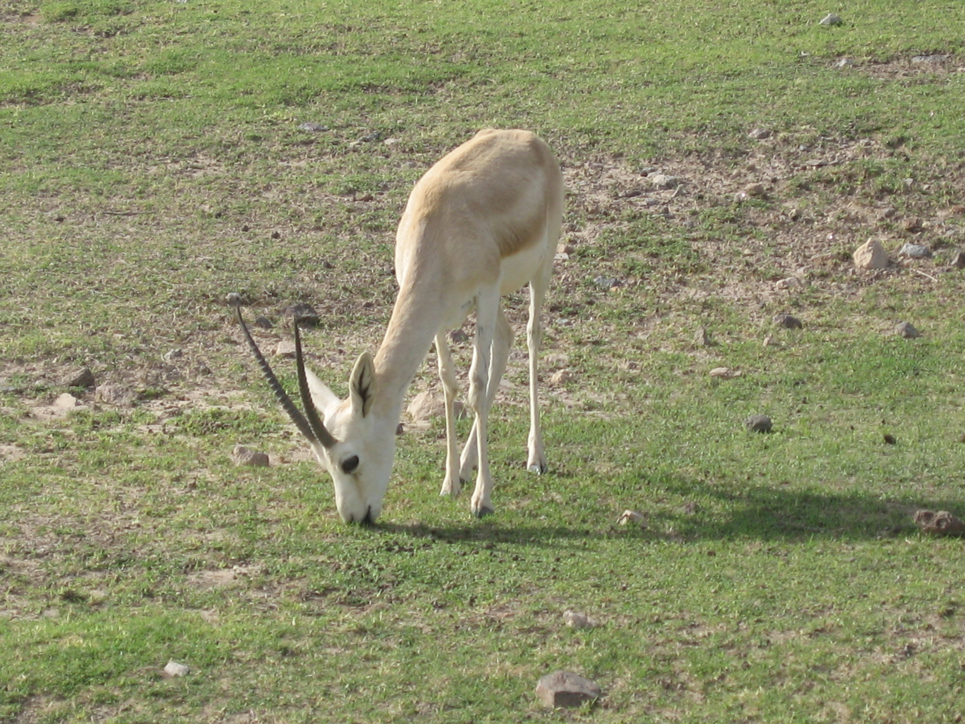 Sand gazelle (Gazella leptoceros) at Sir Bani Yas